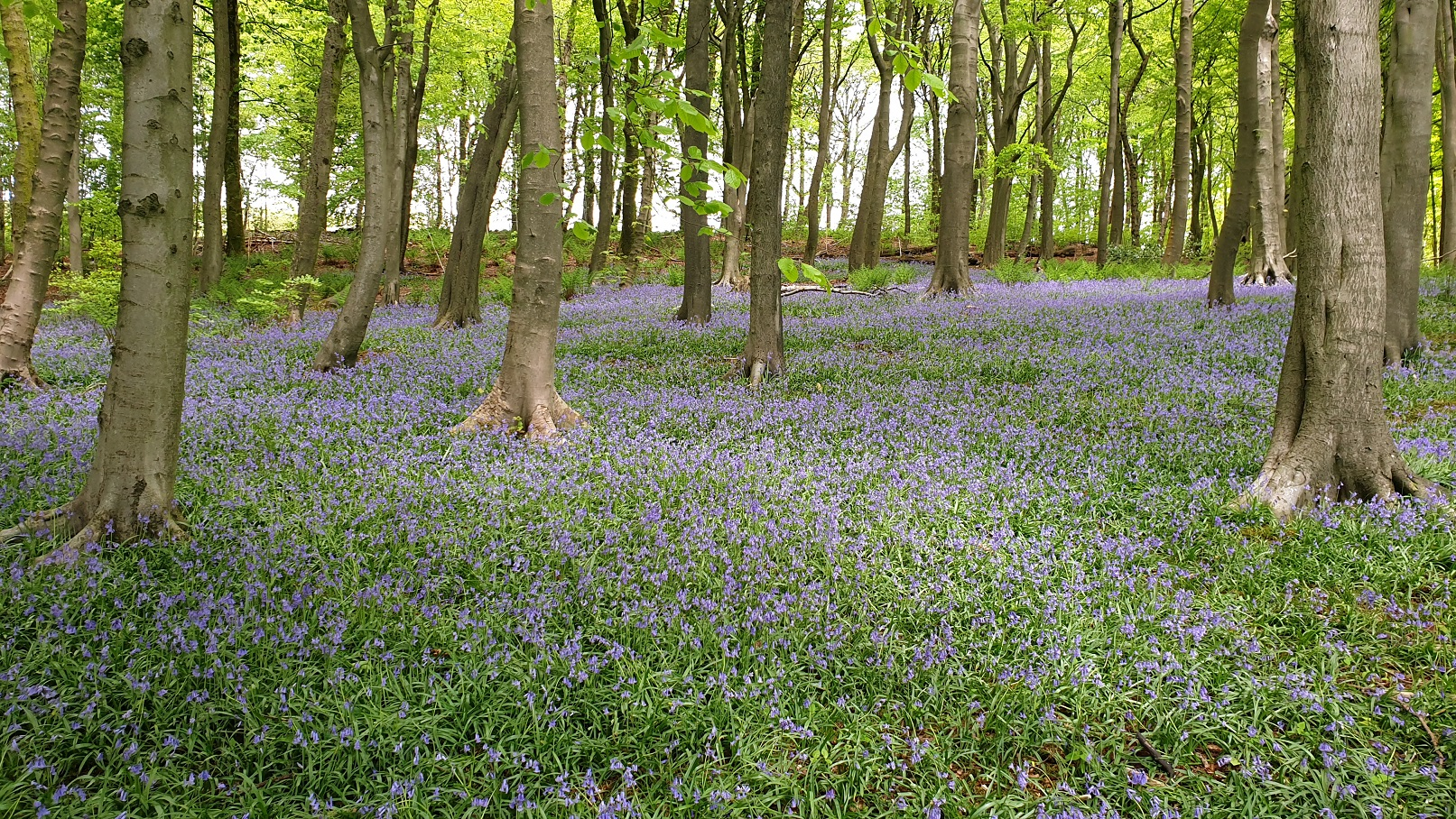 Bluebells in Corbar Woods, Buxton, Debyshire